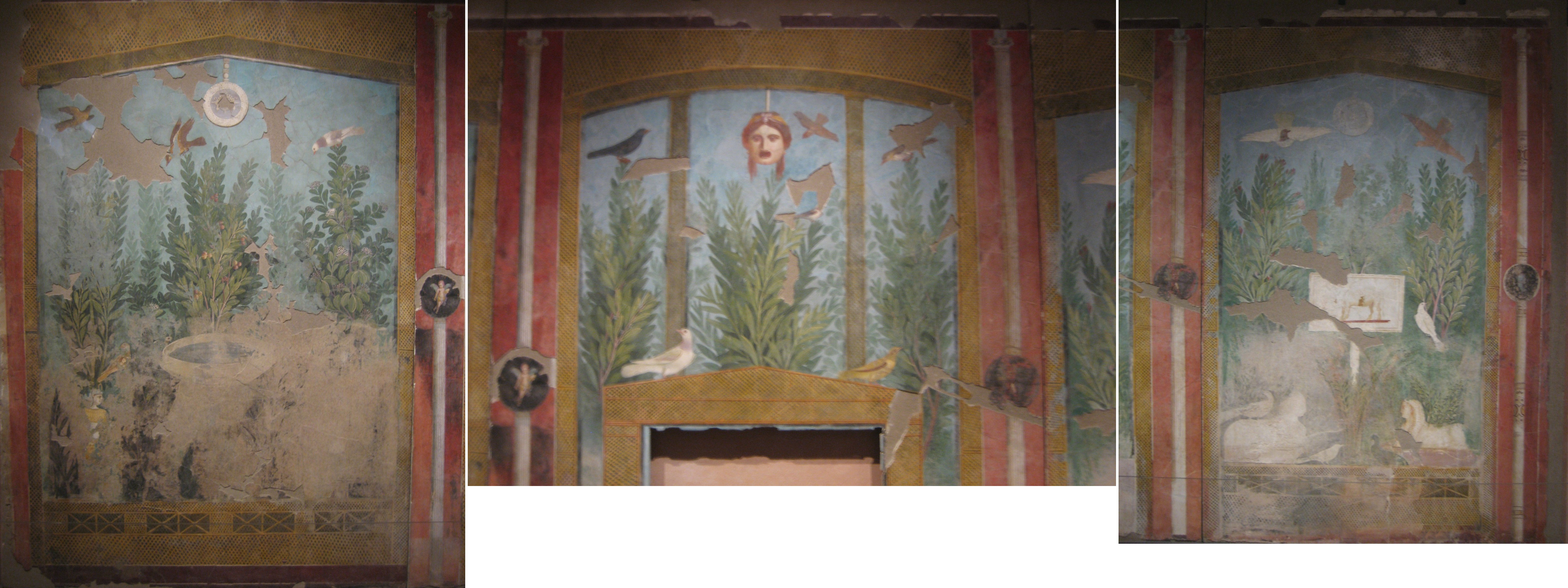 Single continuous fresco from the House of the Golden Bracelet, Pompeii